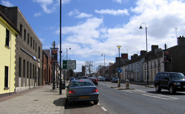 Dungiven Main Street View of street facing road towards Glenshane Pass and Belfast.